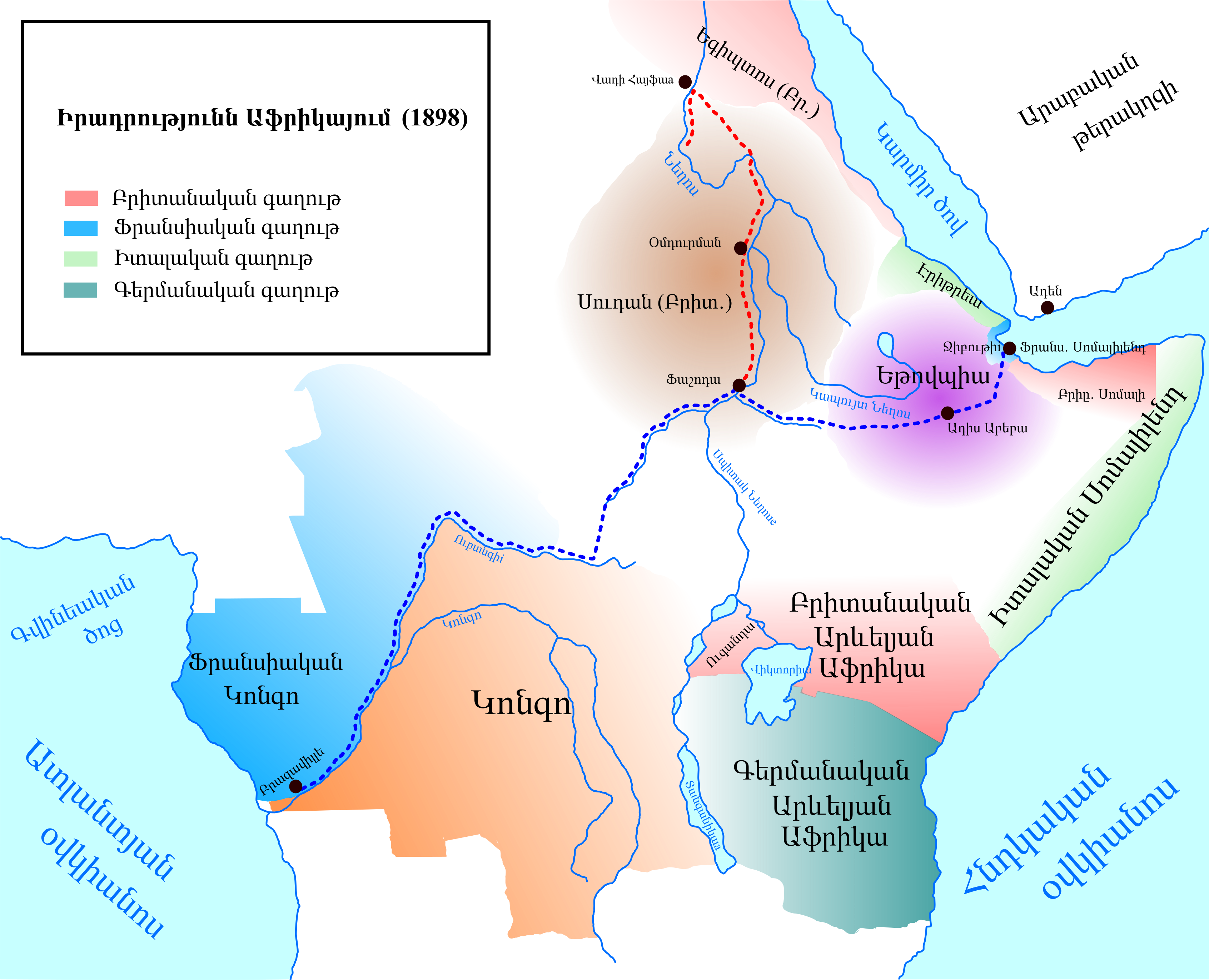 Fashoda Incident map